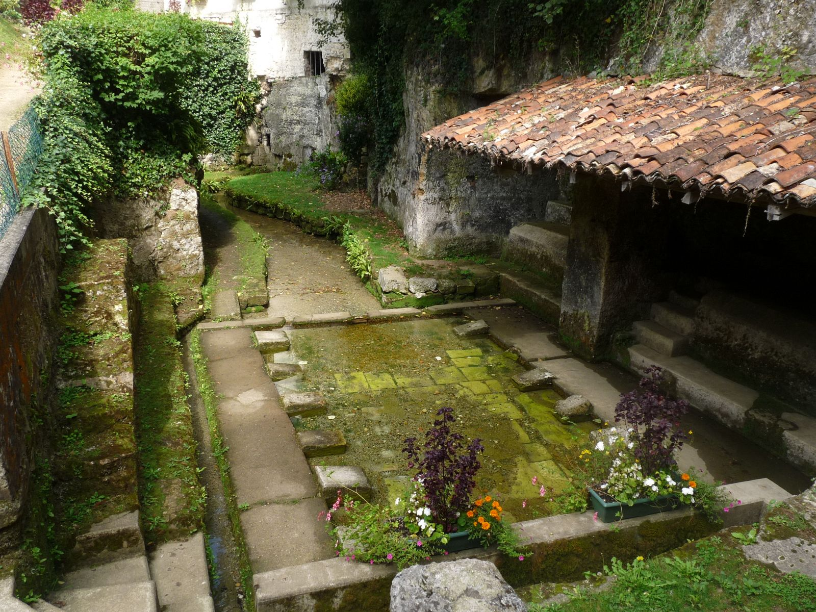 Roman fountains of Vénérand, Charente-Maritime, SW France